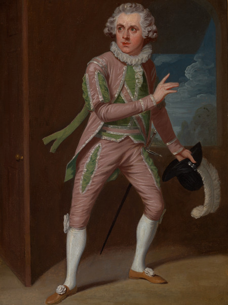 The actor-manager William Wyatt Dimond (c1752-1812) Don Felix in 'The Wonder; A Woman Keeps a Secret' - painted by Samuel De Wilde (1751-1832)